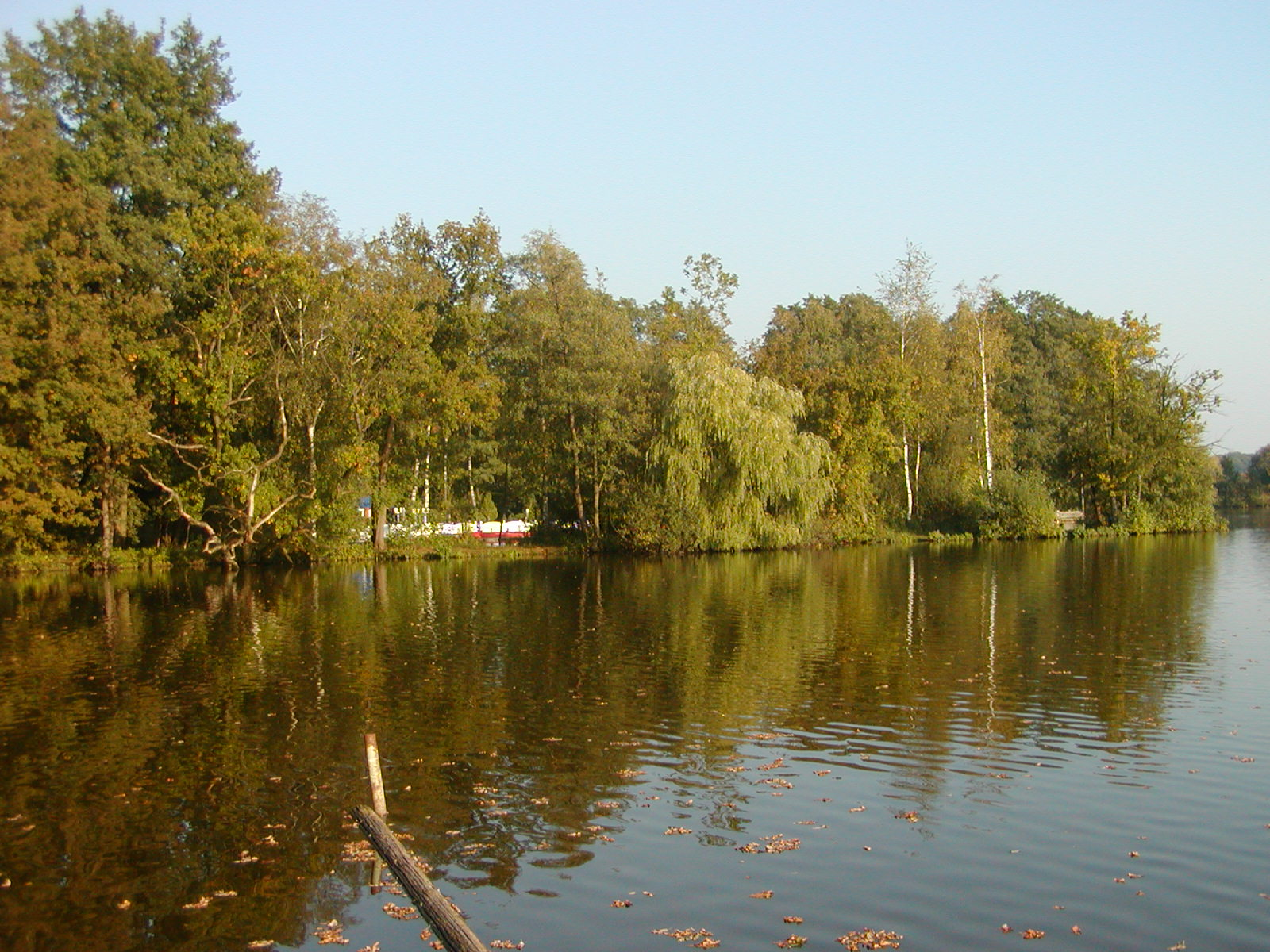 Lake in town of Spenge, District of Herford, North Rhine-Westphalia, Germany.